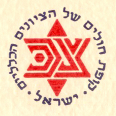 Logo of an Israeli Health maintenance organization, Kupat Cholim Zionit Klalit, no longer in existence.